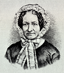 Etching of Dora Beets (1812 - 1864), Dutch writer.